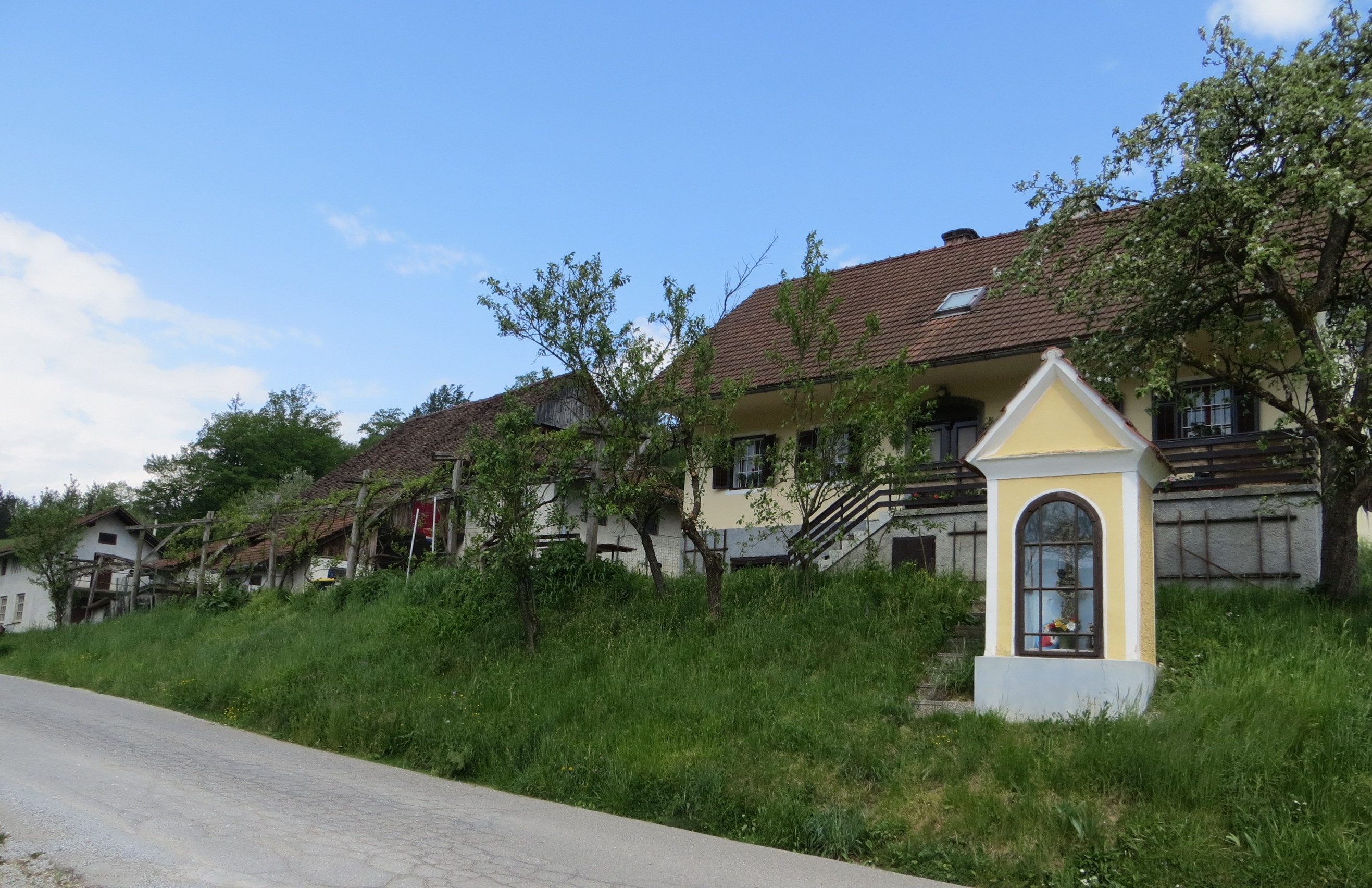 Podroje, Municipality of Šmartno pri Litiji, Slovenia